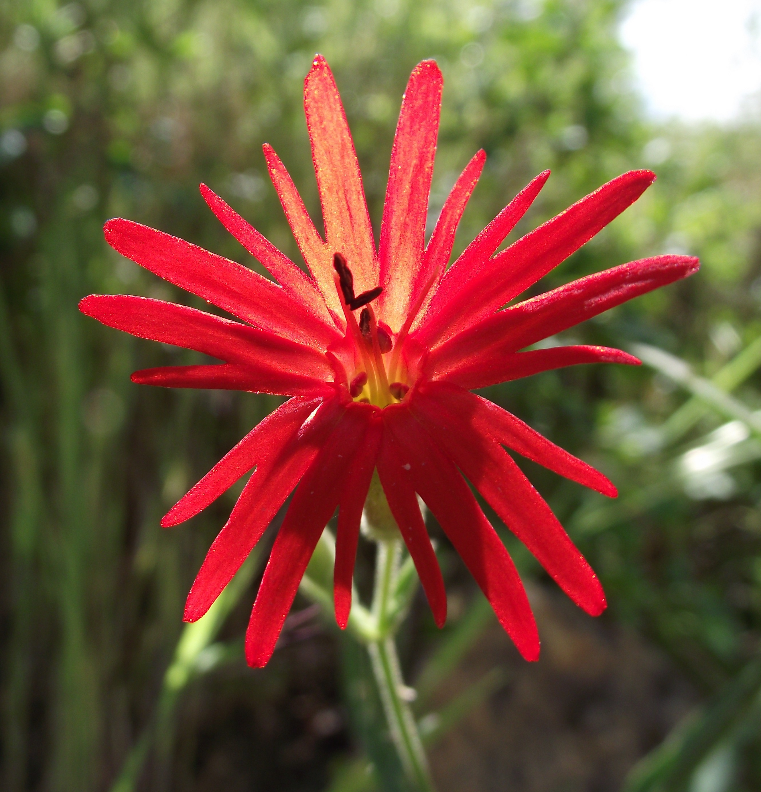 Silene laciniata at Blue Sky Ecological Reserve, Poway, California, USA